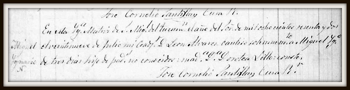 Miguel Lillo, birth, (christening certificate), Cathedral San Miguel de Tucumán, Christenings 1862.L18 F232